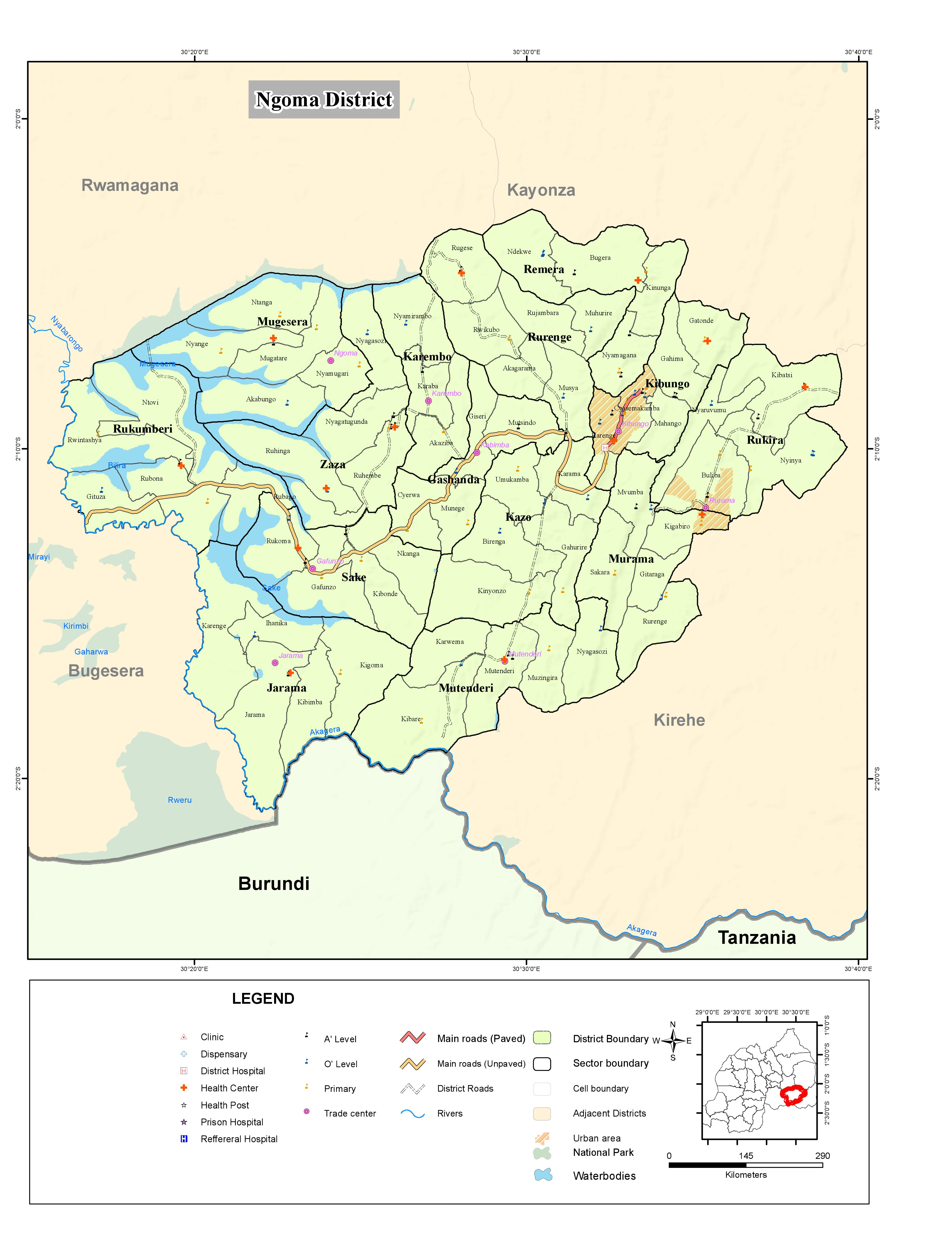 Map of Ngoma district Rwanda